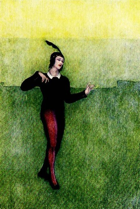 Image from scanned copy of "The Art of Nijinsky" by Geoffrey Arundel Whitworth, published in 1913 and in the Public Domain. Image has been cropped slightly.